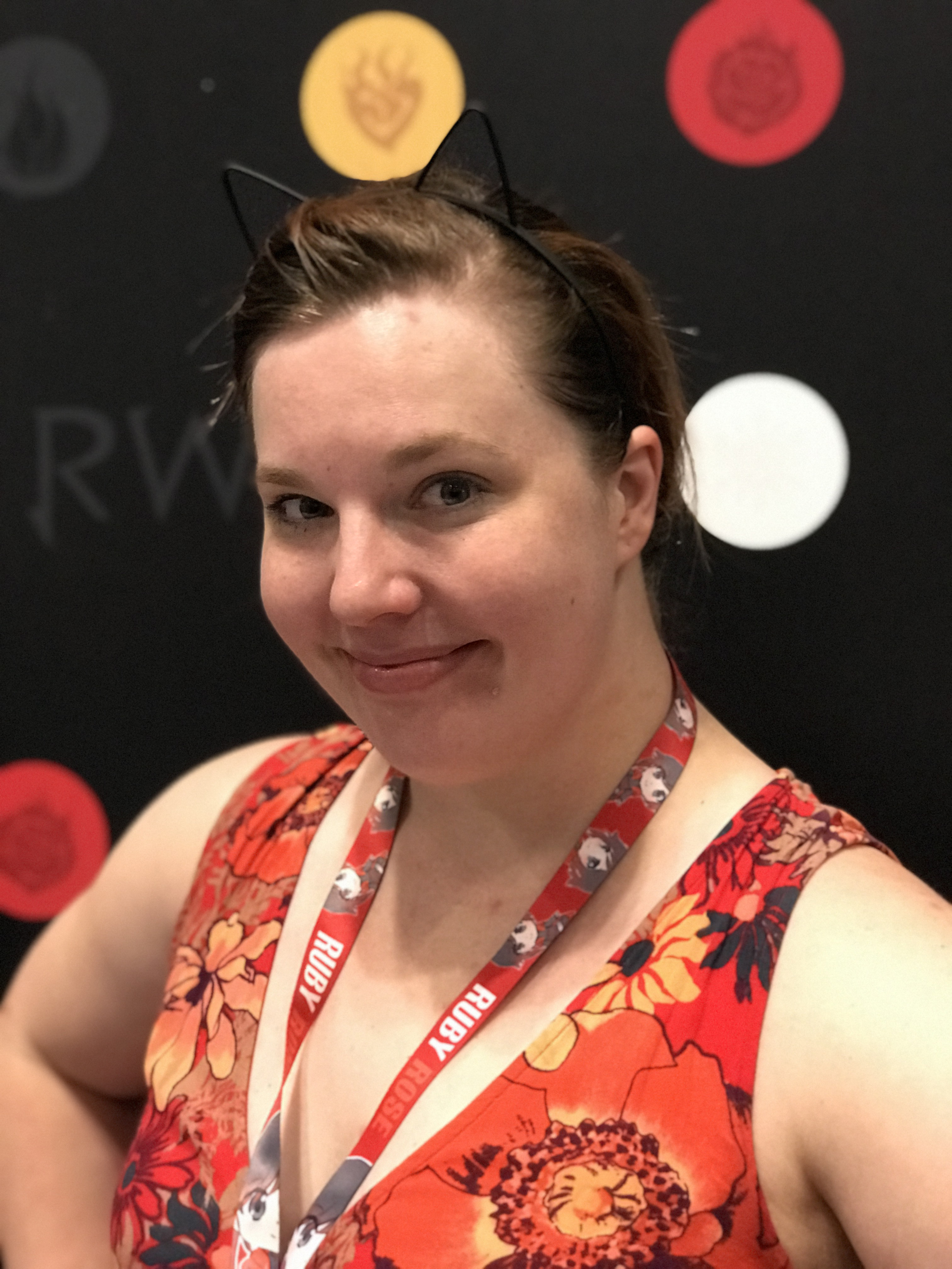 Actress Lindsay Jones at the Rooster Teeth booth at the Jacob K. Javits Convention Center in Manhattan, on Sunday, October 8, 2017, Day 4 of the 2017 New York Comic Con. This photo was created by Luigi Novi. It is not in the public domain, and use of this file outside of the licensing terms is a copyright violation.